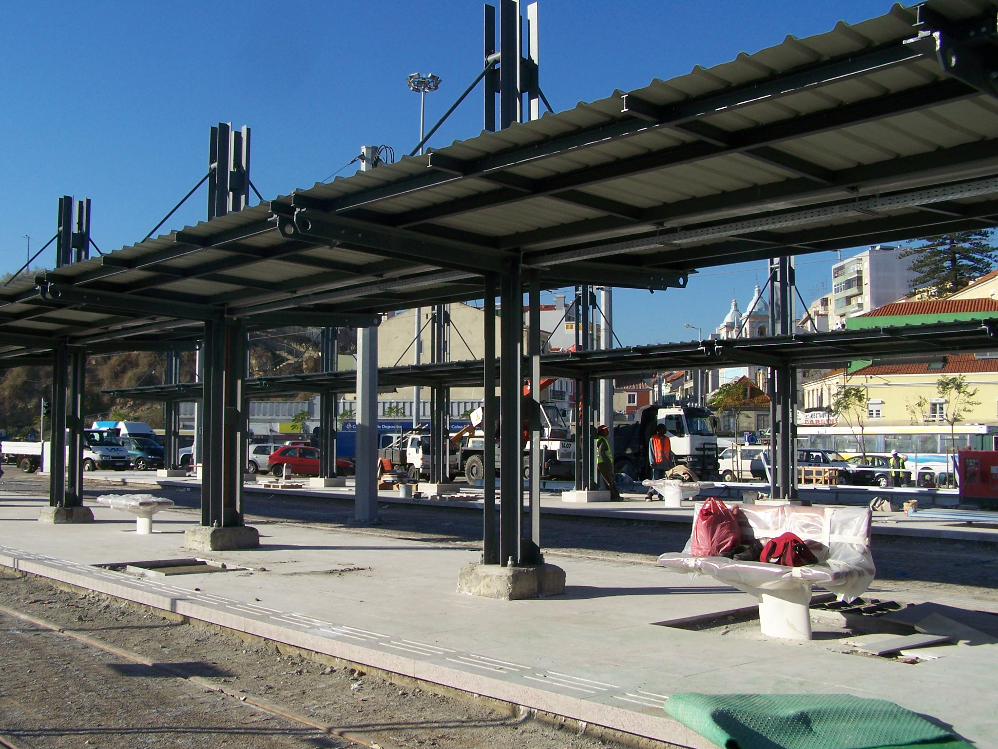 the stop Cacilhas of the Metro Sul do Tejo in construction, Almada, Portugal